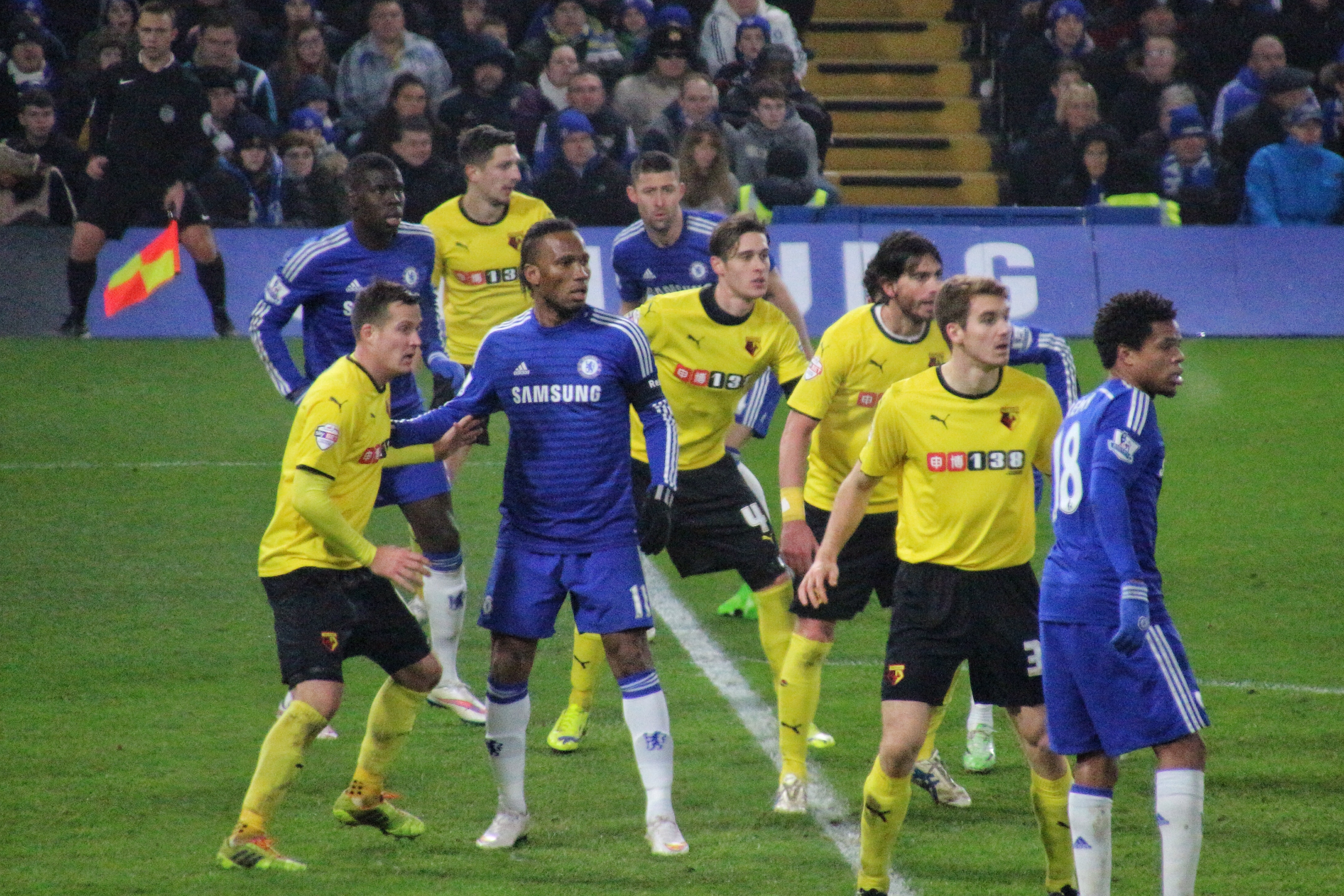 Chelsea 3 Watford 0 FA Cup 3rd round